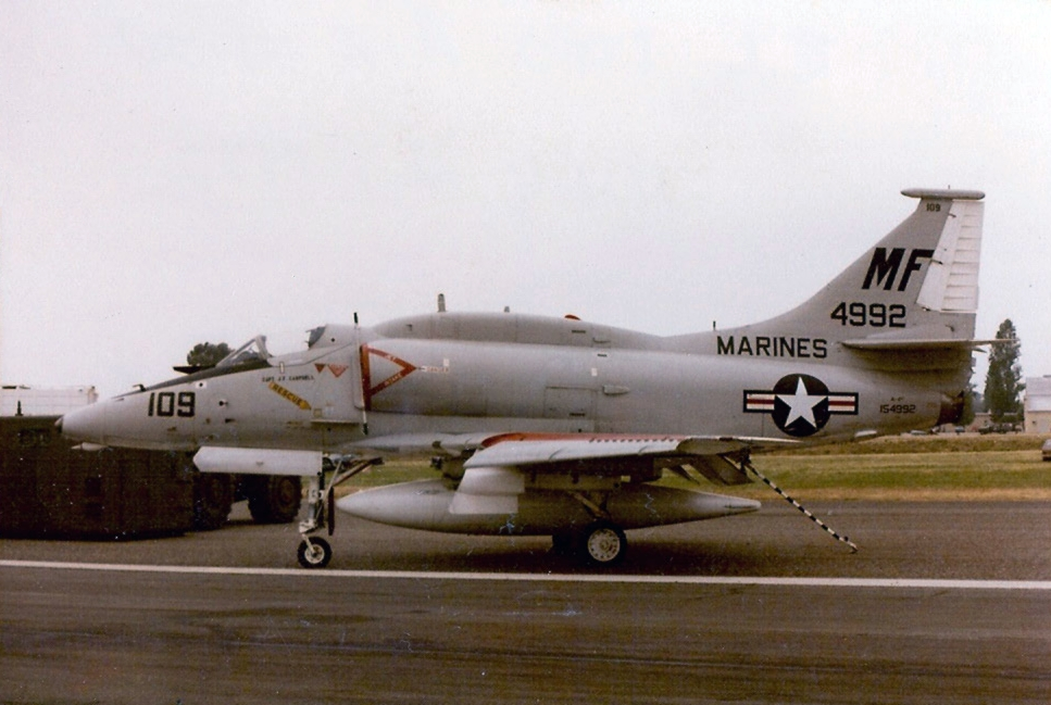 A U.S. Marine Corps Reserve Douglas A-4F Skyhawk (BuNo 154992) from Marine Attack Squadron VMA-134 at the Marine Corps Air Station El Toro, California (USA), air show, in 1982. This aircraft later served with the Blue Angels aerobatics team as aircraft No.6. It collided with A‑4F 155029 (No.5) on the top of a loop during a display at Niagara Falls airport, New York (USA), on 13 July 1985. The pilot of 155029 ejected safely, but the pilot of 154992, LCdr. Mike Gershon, was killed.